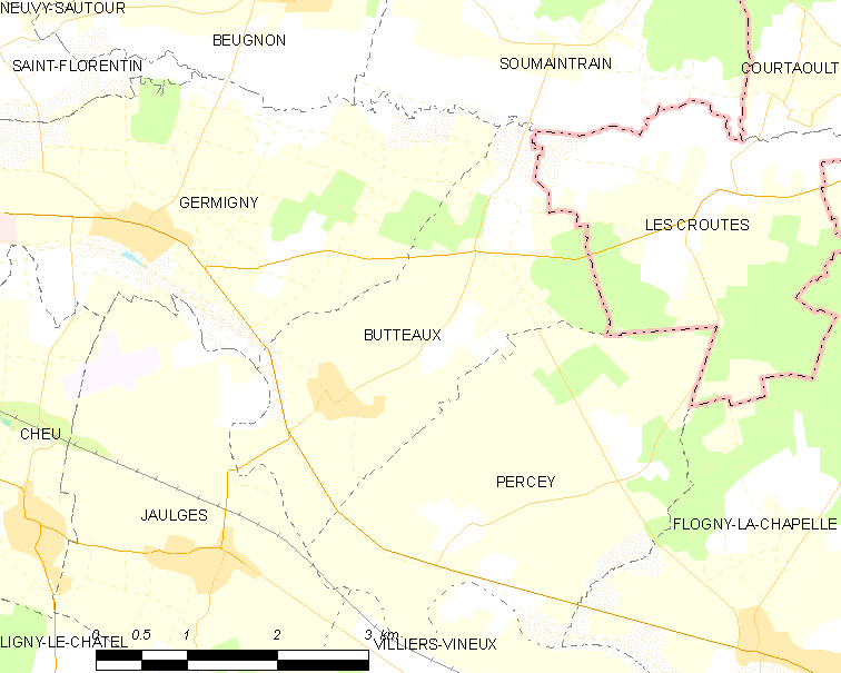 Map of French municipality Butteaux